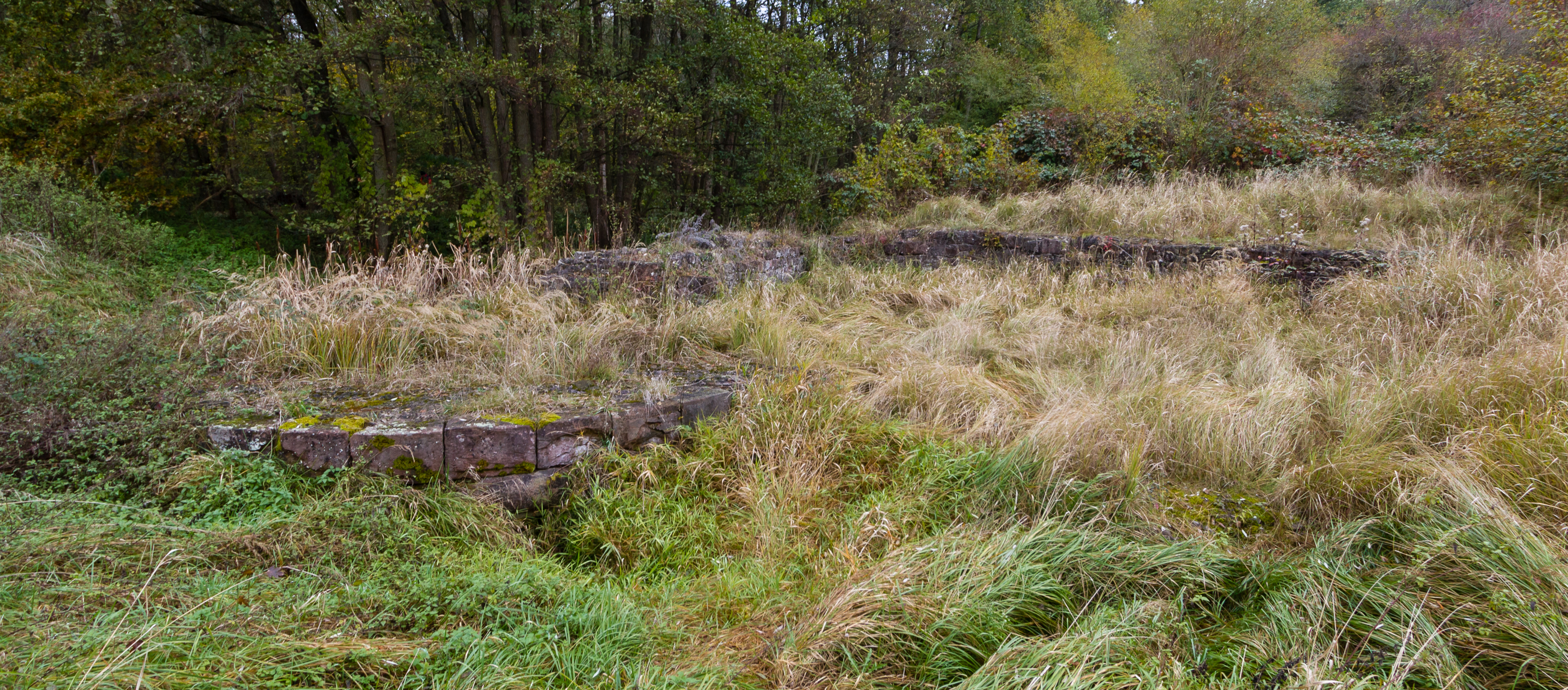 This building is en partie classé, en partie inscrit au titre des Monuments Historiques. Designation: Château Saint-Rémy d'Altenstadt Category: Castle, archaeological site Construction time: 11th century (before 1349) Date of protection: 03/11/1989 Description: Former lowland castle, approximately trapezoidal complex with at least three round corner towers, remains of a trapezoidal hall building. One of the four castles defending the Abbey of Wissembourg, at the four cardinal points. Place: Wissembourg, Arrondissement Haguenau-Wissembourg, Bas-Rhin, Grand Est, France Location: East of Wissembourg-Altenstadt, about 300 m south of the Lauter in the Lautern lowlands next to the St. Remig mill.